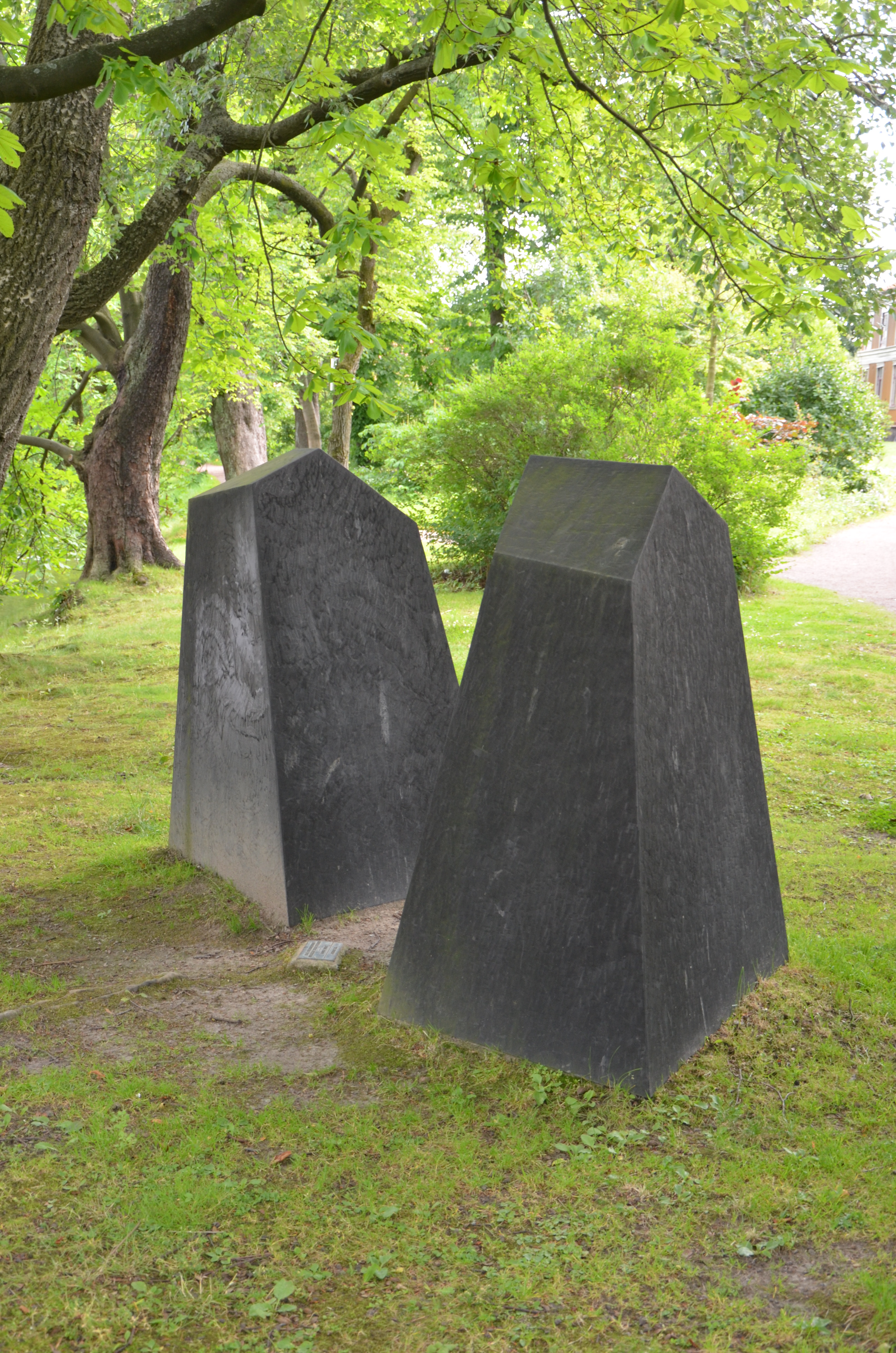 Stina Ekmans De svarta, 1995, Trädgårdsföreningen, Göteborg